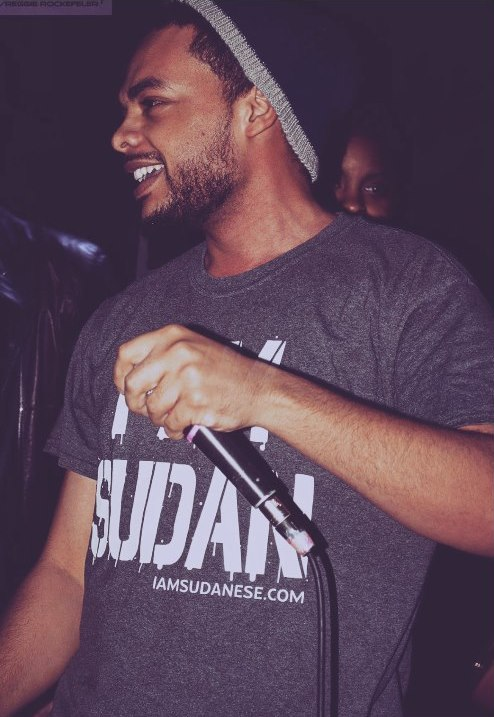 Ramey Dawoud live in 2015